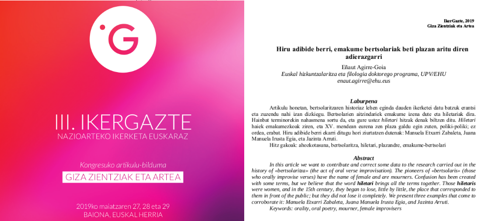 Proceedings of the Ikergazte-2019 conference.